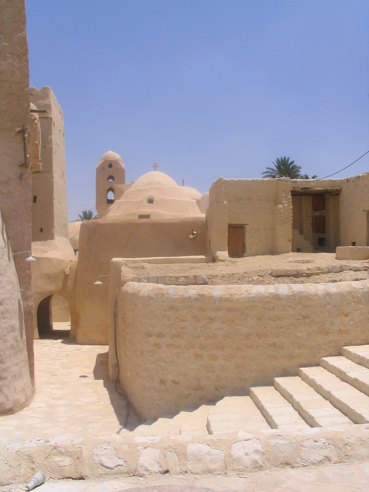 Inside the grounds of St. Anthony's Monastery at Coma, Egypt. دير_الأنبا_أنطونيوس Monastery of Saint Anthony Monaĥejo de Sankta Antonio Monastère Saint-Antoine Monastero di Sant'Antonio Klooster van Sint Antonius Монастир Святого Антонія Великого